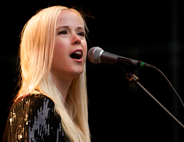 Danish singer-songwriter Tina Dickow (a.k.a. Tina Dico), performing at Skovdalen in Aalborg, Denmark.